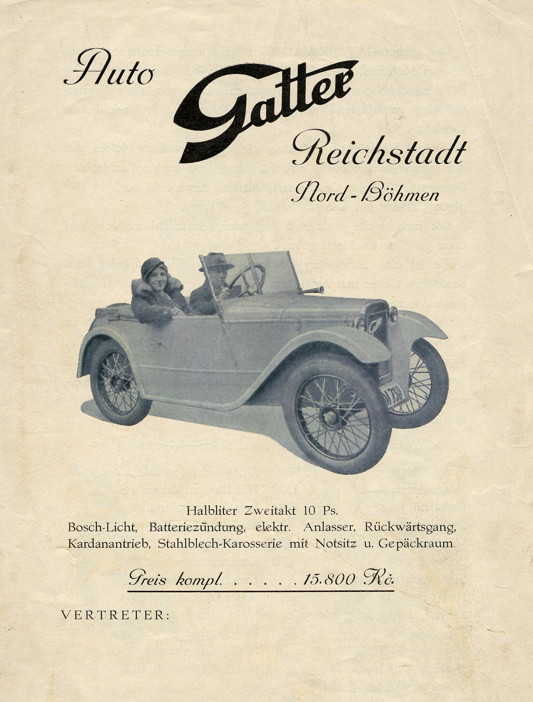 Advertisement of the Gatter Car Company in Reichstadt (Zakupy) of 1934, Czech Republic